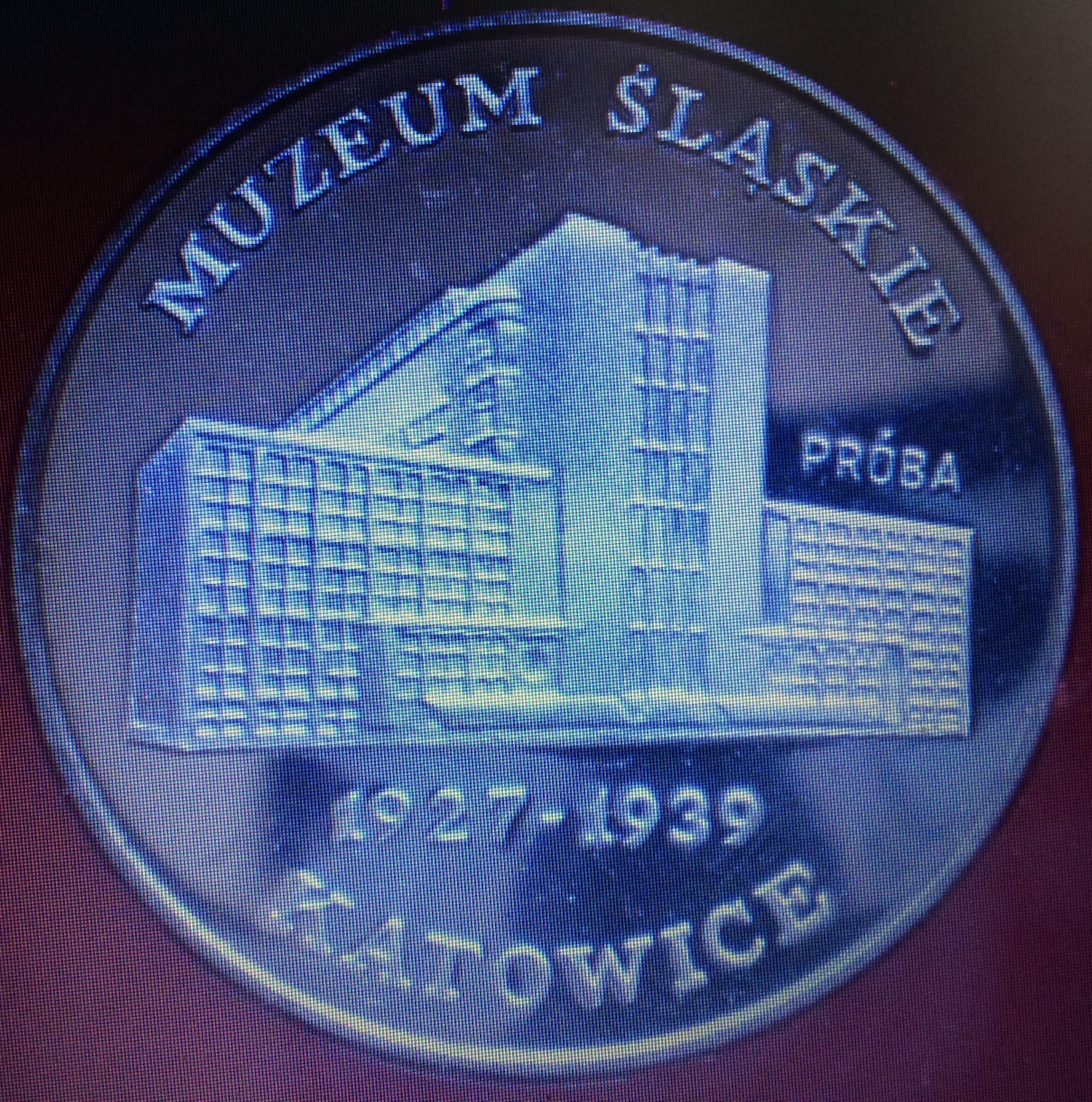 Polish Coin of 1987 Silesian Museum 1927-1939